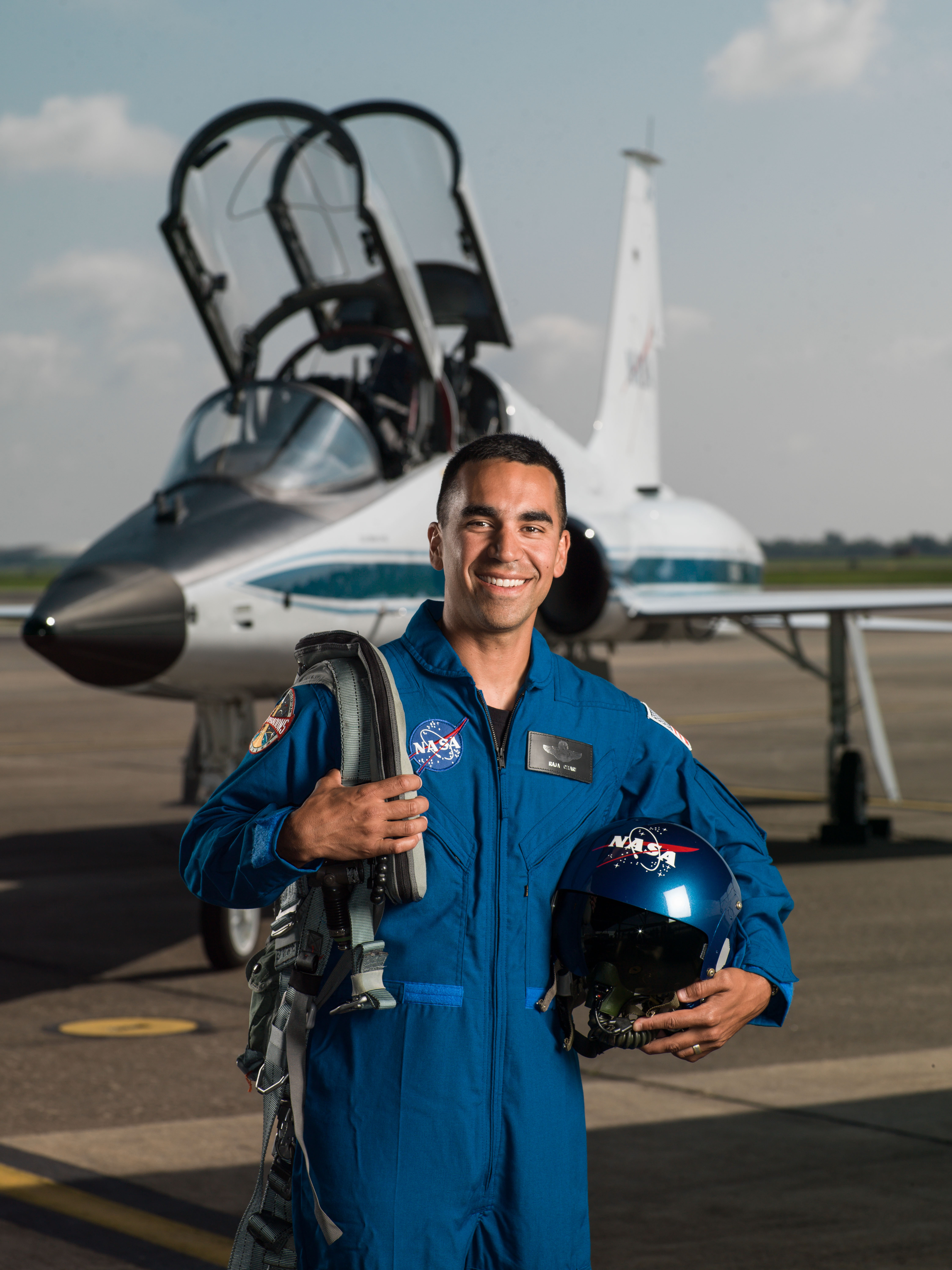 2017 NASA astronaut candidates. Photo date: June 6, 2017. Location: Ellington Field - hangar 276, Tarmac.